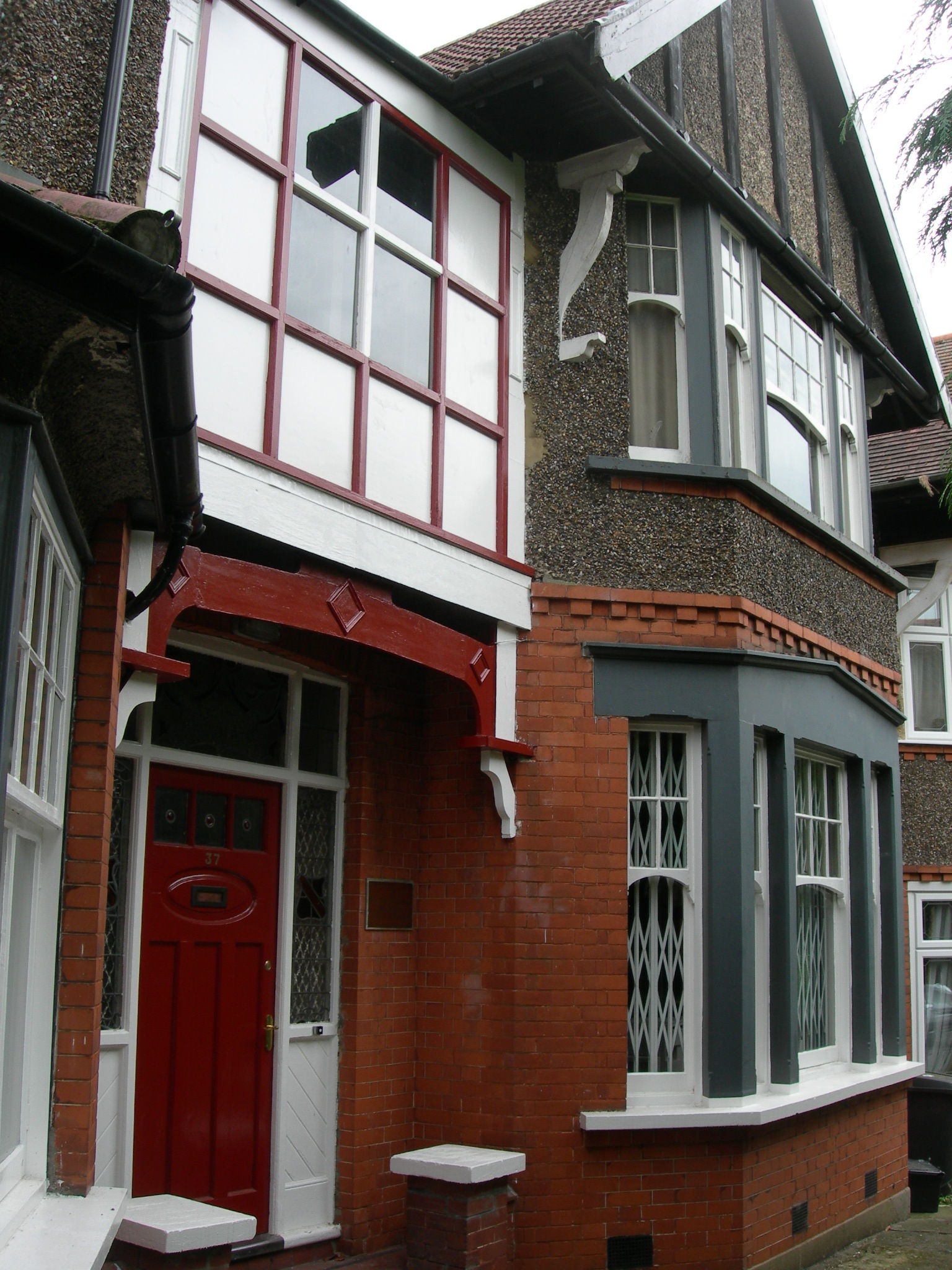 Francis Skaryna Belarusian Library and Museum building in London, UK